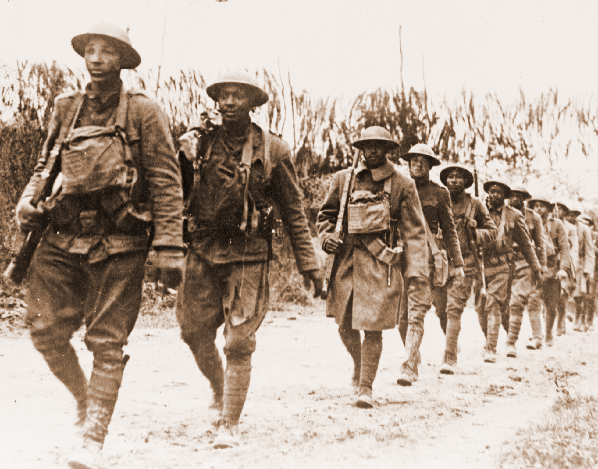 U.S. Army infantry troops, African American unit, marching northwest of Verdun, France, in World War I.